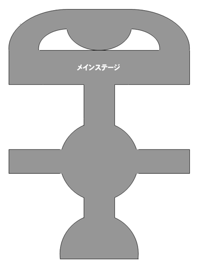 Disney's Rhythms of the World Stage